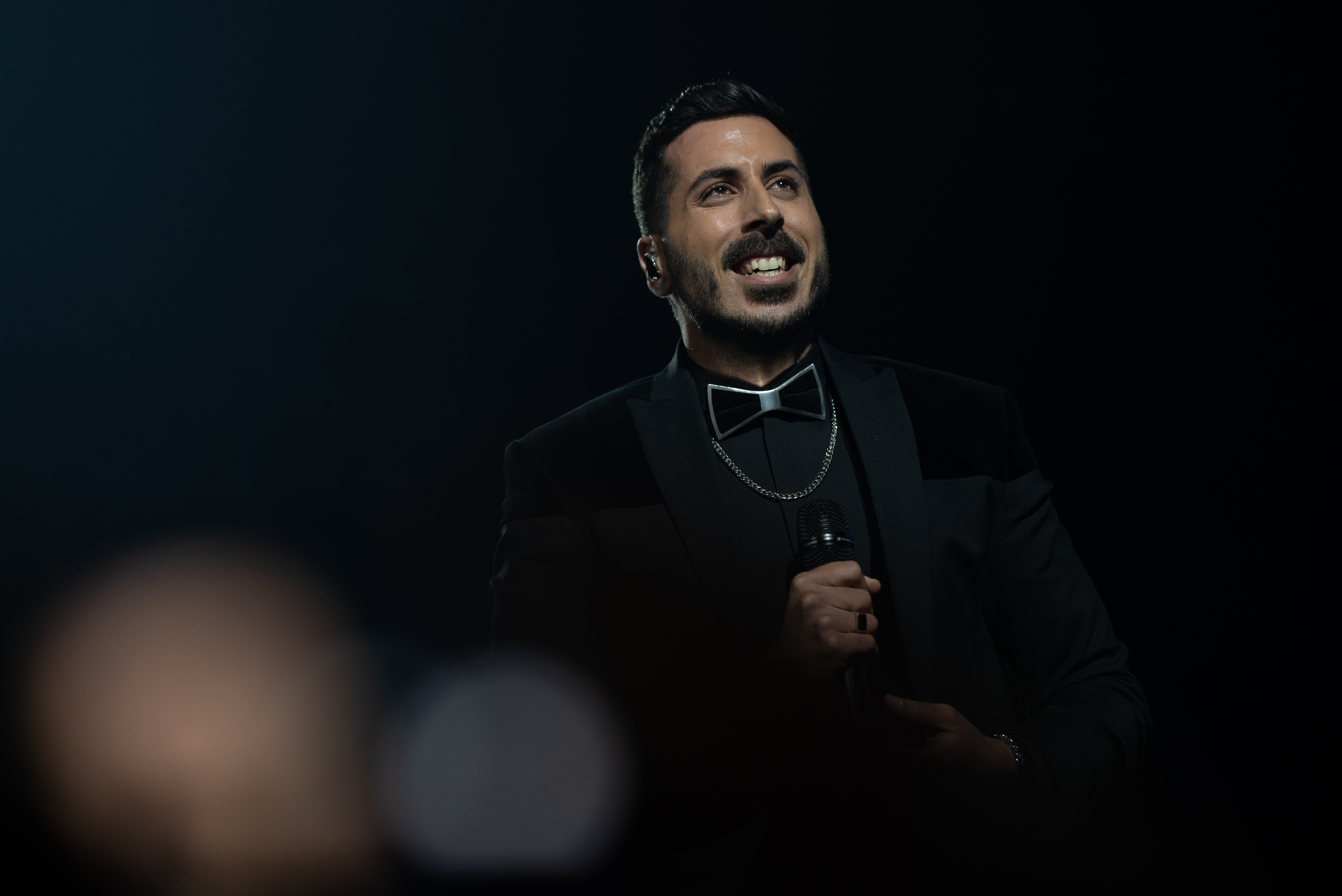 Kobi Marimi representing Israel with the song "Home" during a rehearsal before the grand final of the Eurovision Song Contest 2019 in Tel-Aviv.